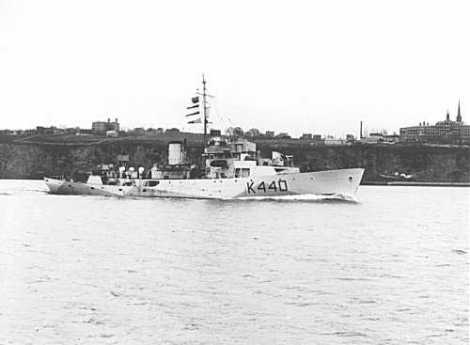 HMCS Lachute- Flower class corvette (Revised).